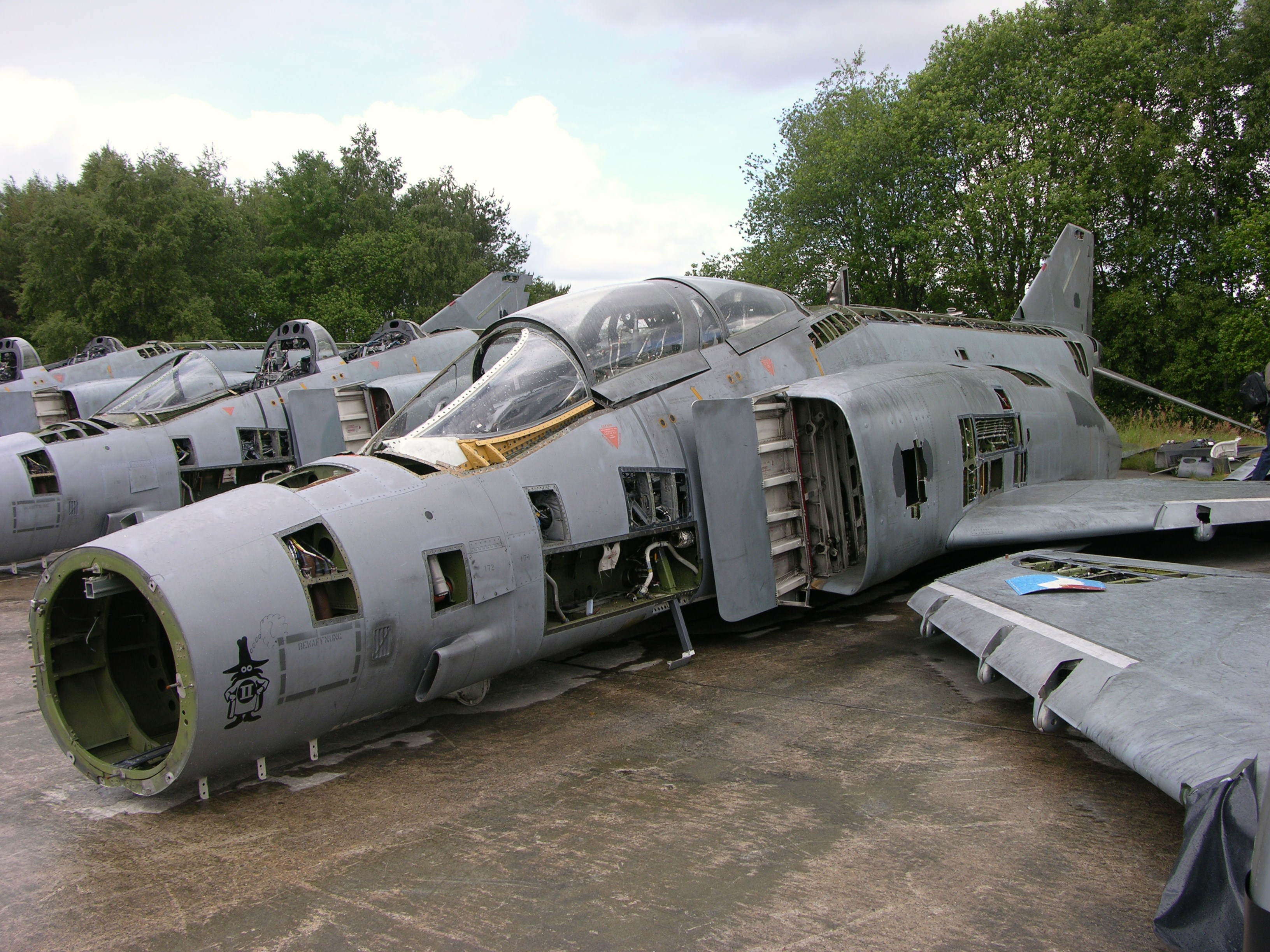 This one still has the "Spook" painted on the nose.